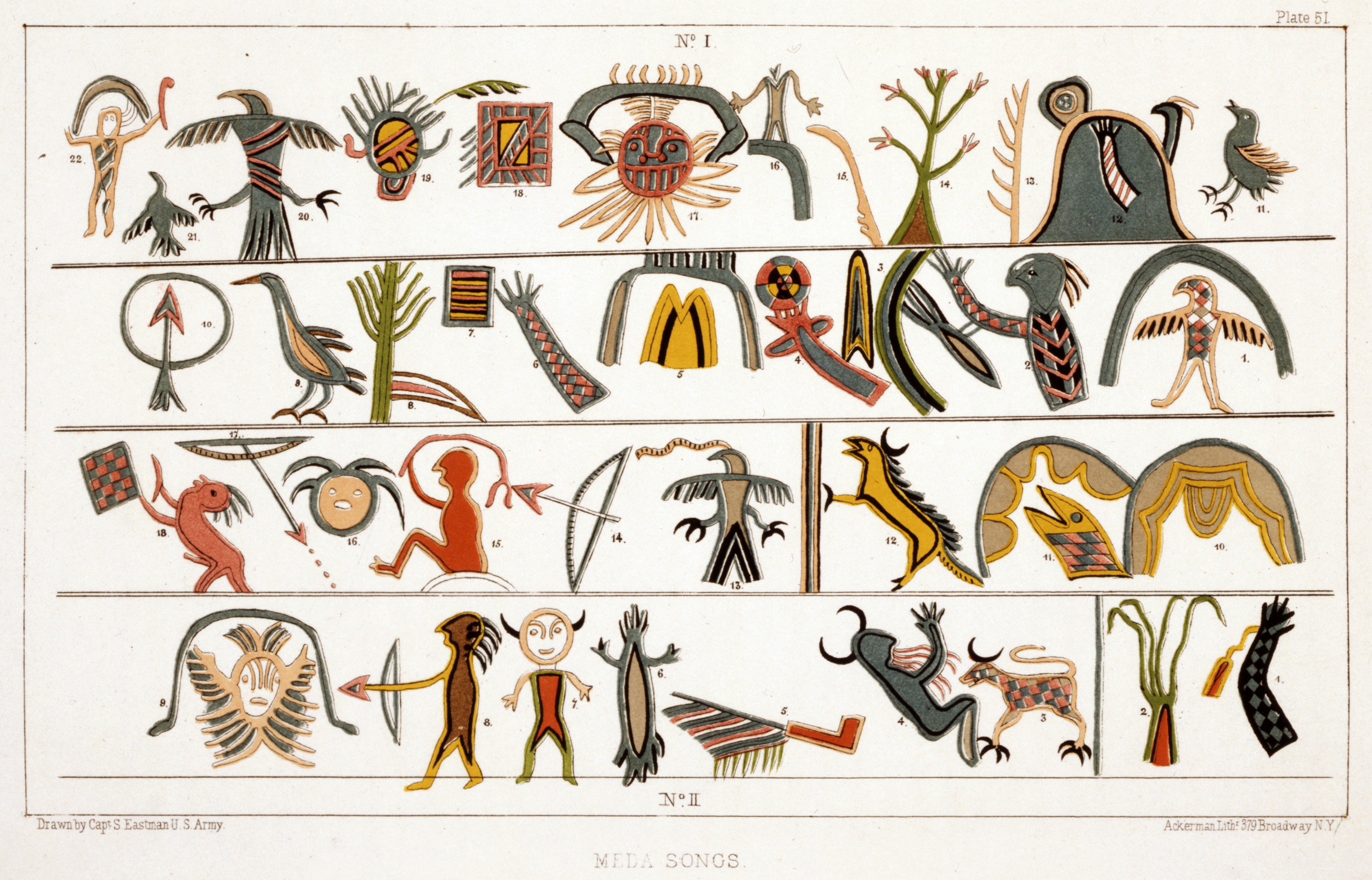 Meda songs. Pictorial notation of an Ojibwa music board. Original illustration on birchwood slab, collected in northern Great Lakes area, ca. 1820. Plate 51, No. I in: Historical and statistical information respecting the history, condition and prospects of the Indian tribes of the United States by Henry Rowe Schoolcraft. Philadelphia: Lippincott, Grambo, 1851-57.